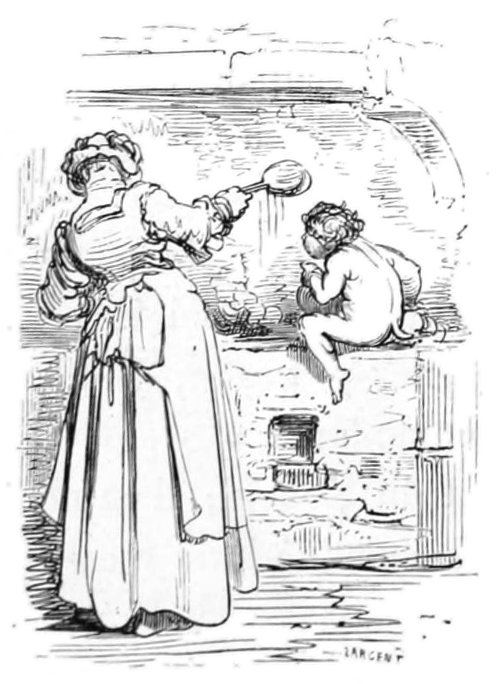 A woman aided by a house kobold.